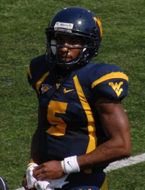 West Virginia University Quarterback Pat White - 2007